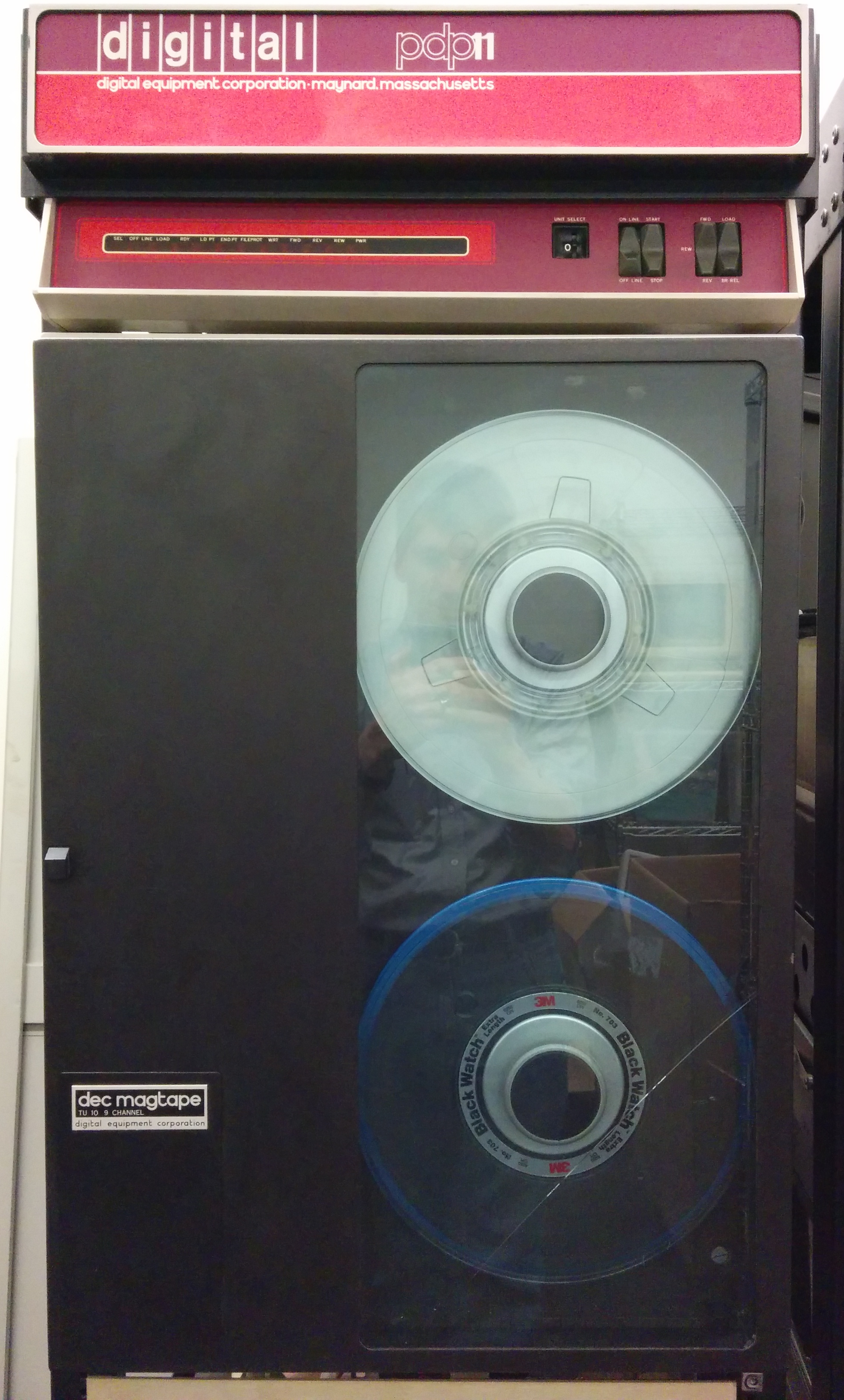 A DEC TU10 9 track tape drive attached to a PDP-11/34 computer.